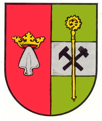 Coat of arms of Schönau (Pfalz)